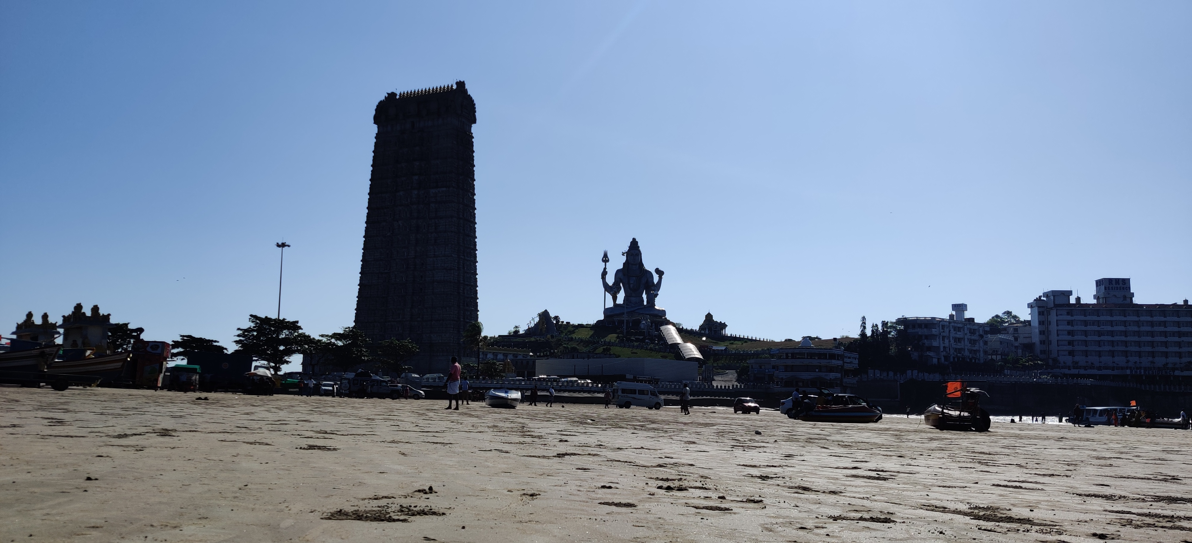 Murdeshwar Lord Shiva Temple View